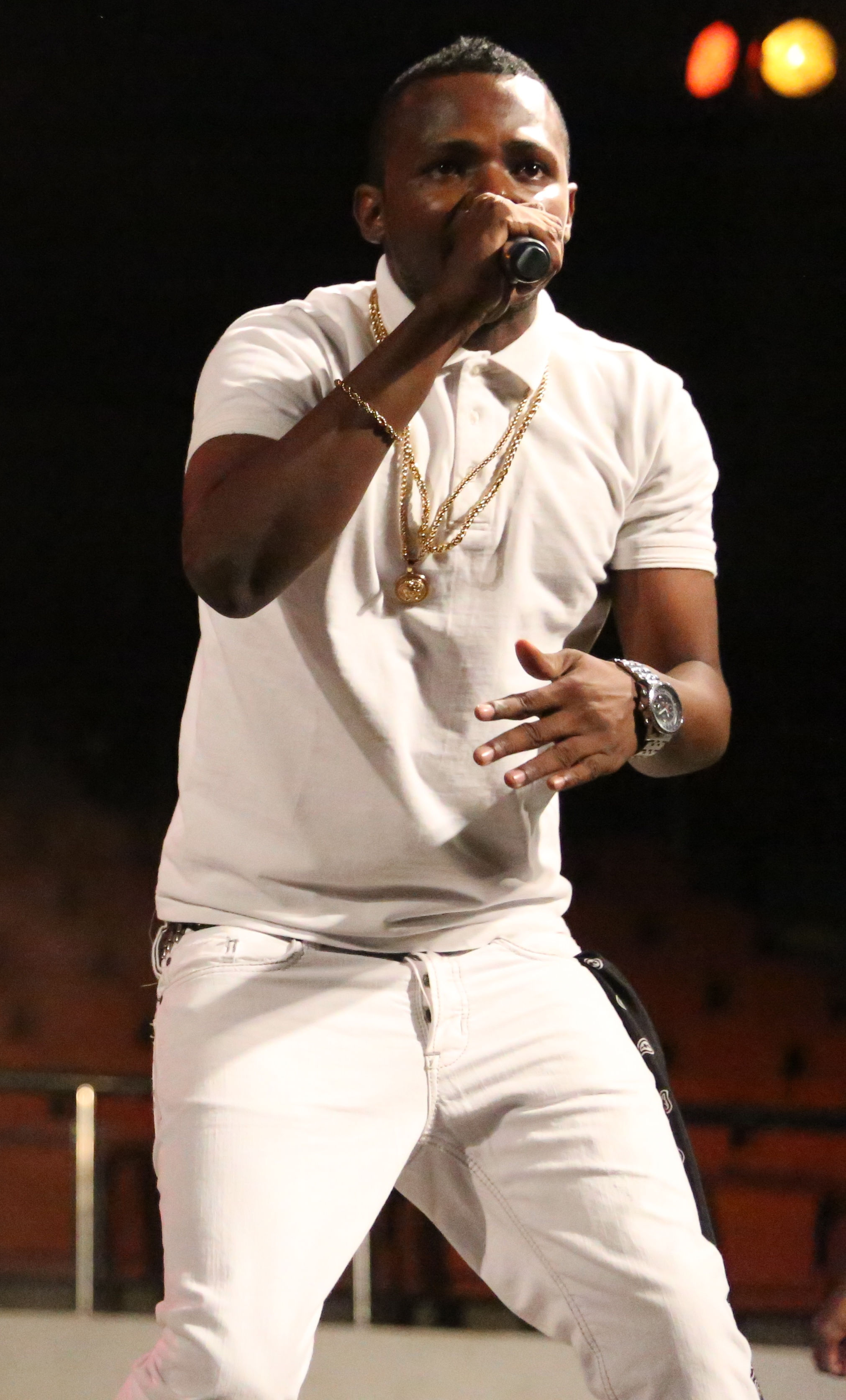 Michael au festi tour